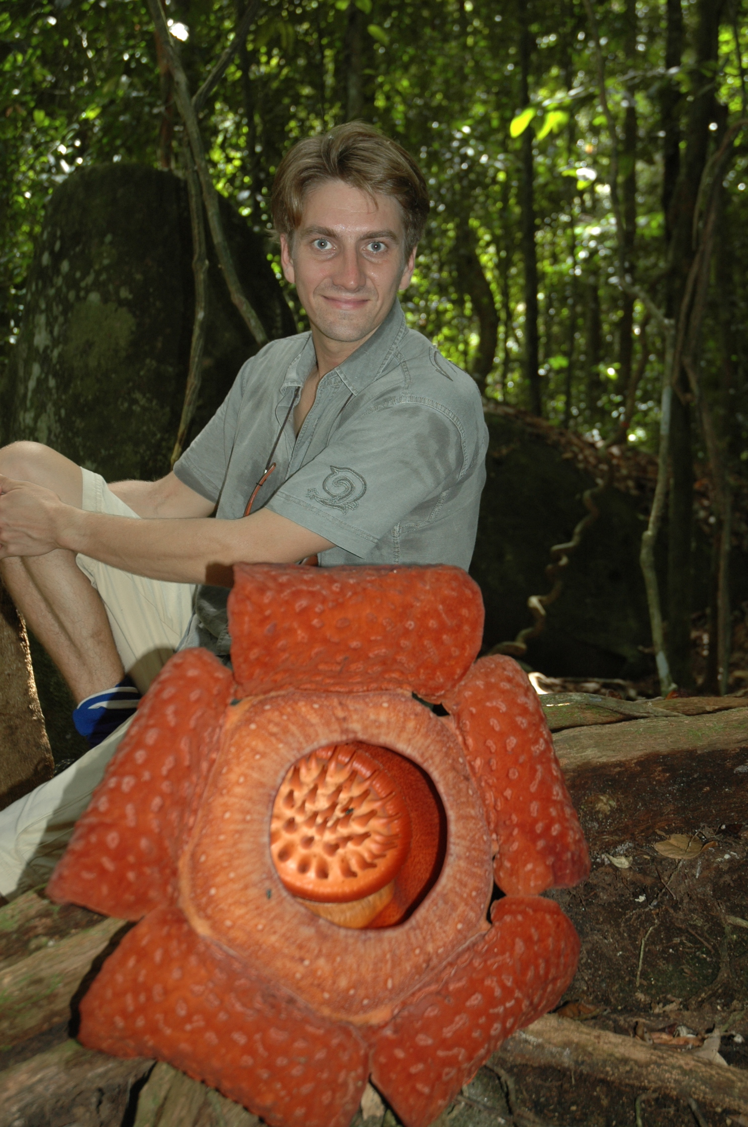 Rafflesia Tuan-mudae at Guning Gading National Park August 2008, with man behind to show scale of the large flower.